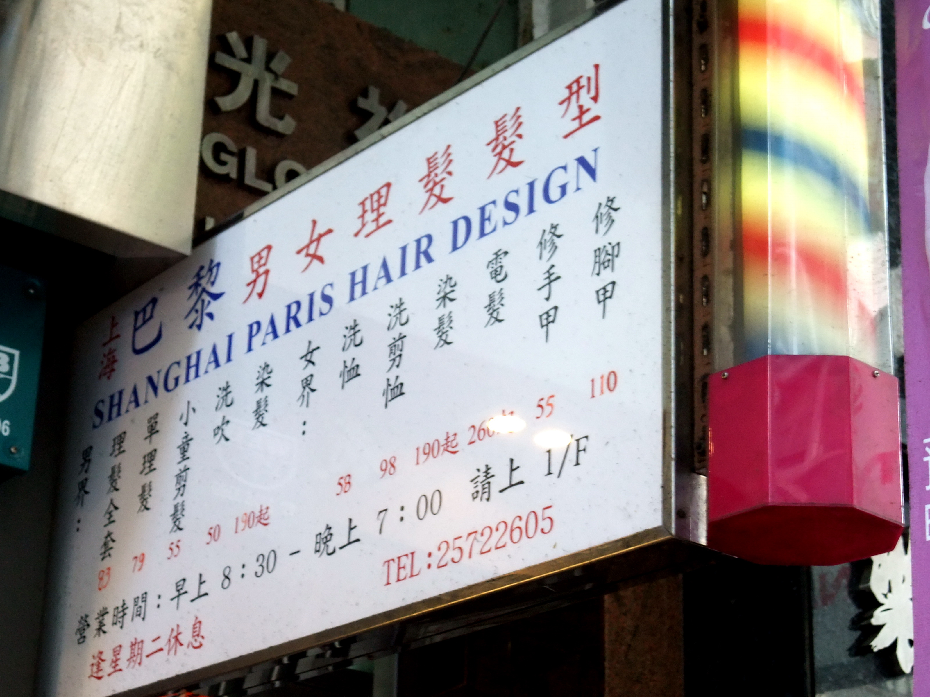 A price list of a hair salon in Wan Chai, Hong Kong.